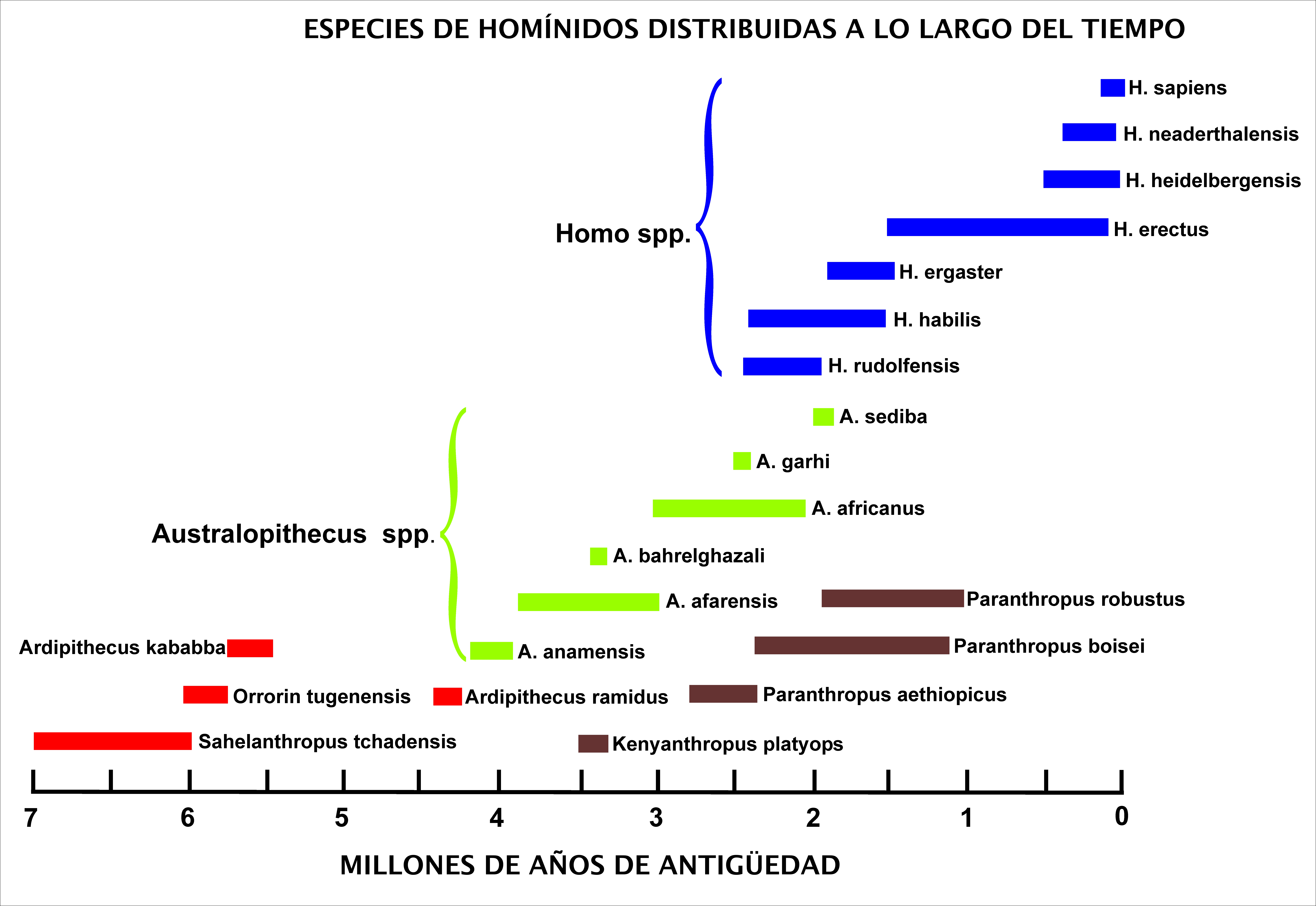 Distribution of Hominin fossil species over time constructed using information contained in the illustration with the same name on the Human evolution page, supplemented and refined with information in Figure 10.12 on p. 294 of "The Story of Earth & Life" by Terence McCarthy and Bruce Rubidge (2005). Struik Publishers, Cape Town. ISBN 1 77007 148 2.